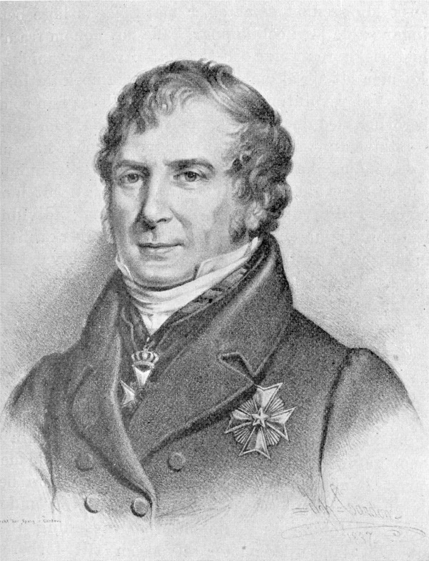 Hans Järta, Swedish politician and civil servant. From Emil Hildebrand, Sveriges historia intill tjugonde seklet (1910